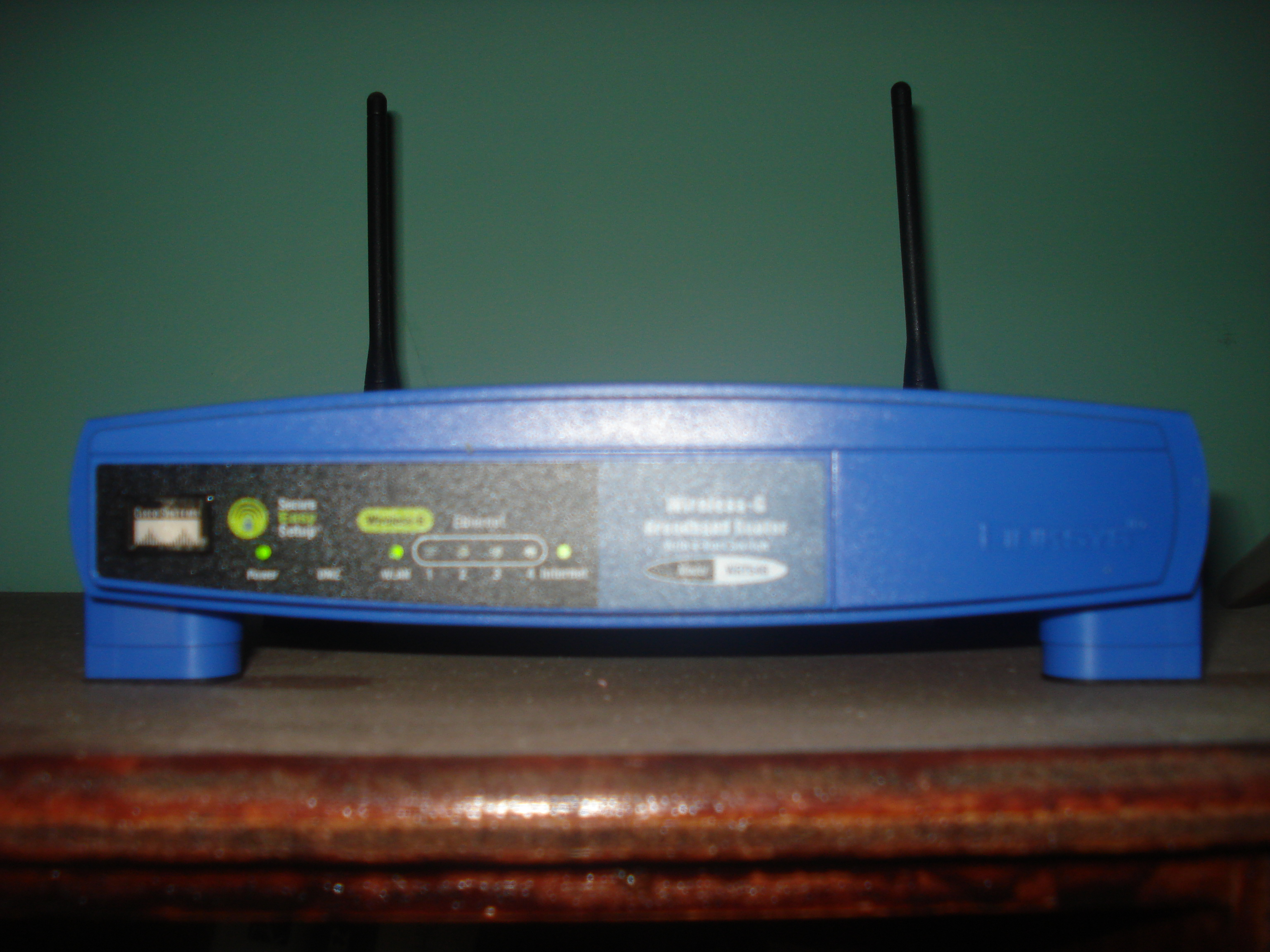 modem WiFi